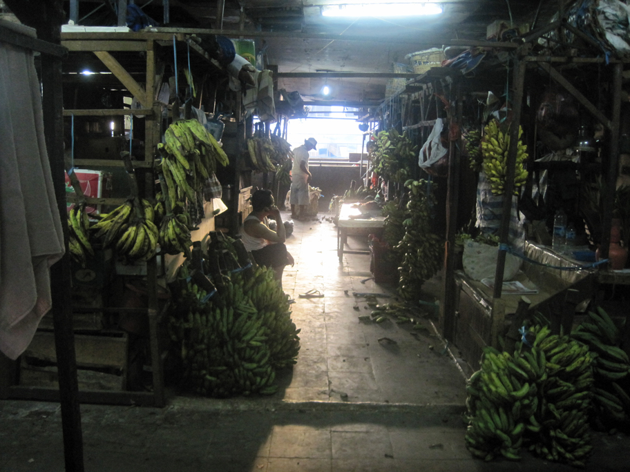 Market in Pasar Minggu, South Jakarta, Indonesia.